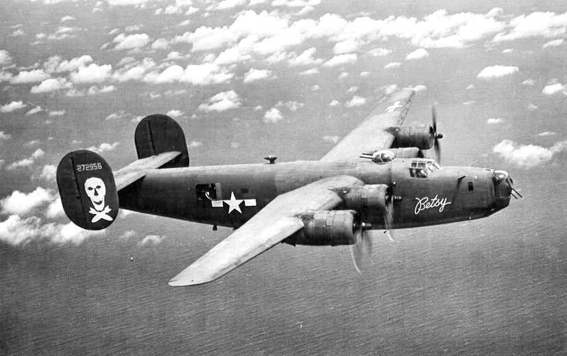 "Betsy" B-24D-170-CO Liberator s/n 42-72956 321st BS, 90th BG, 5th AF On Mission to Wewak, New Guinea, 24 February 1944